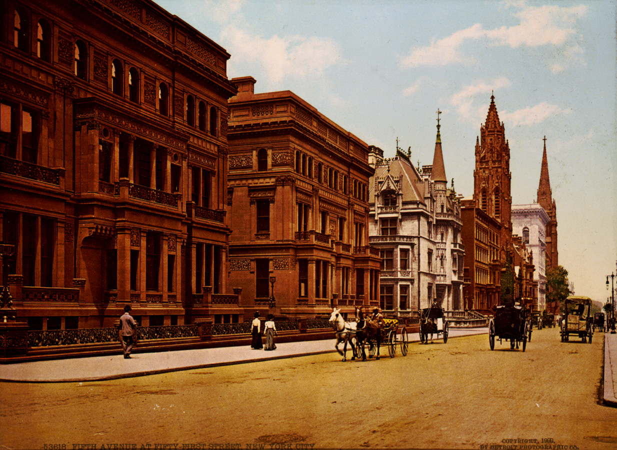 Fifth Avenue at Fifty-first Street, New York City. 1 photomechanical print : photochrom, color.